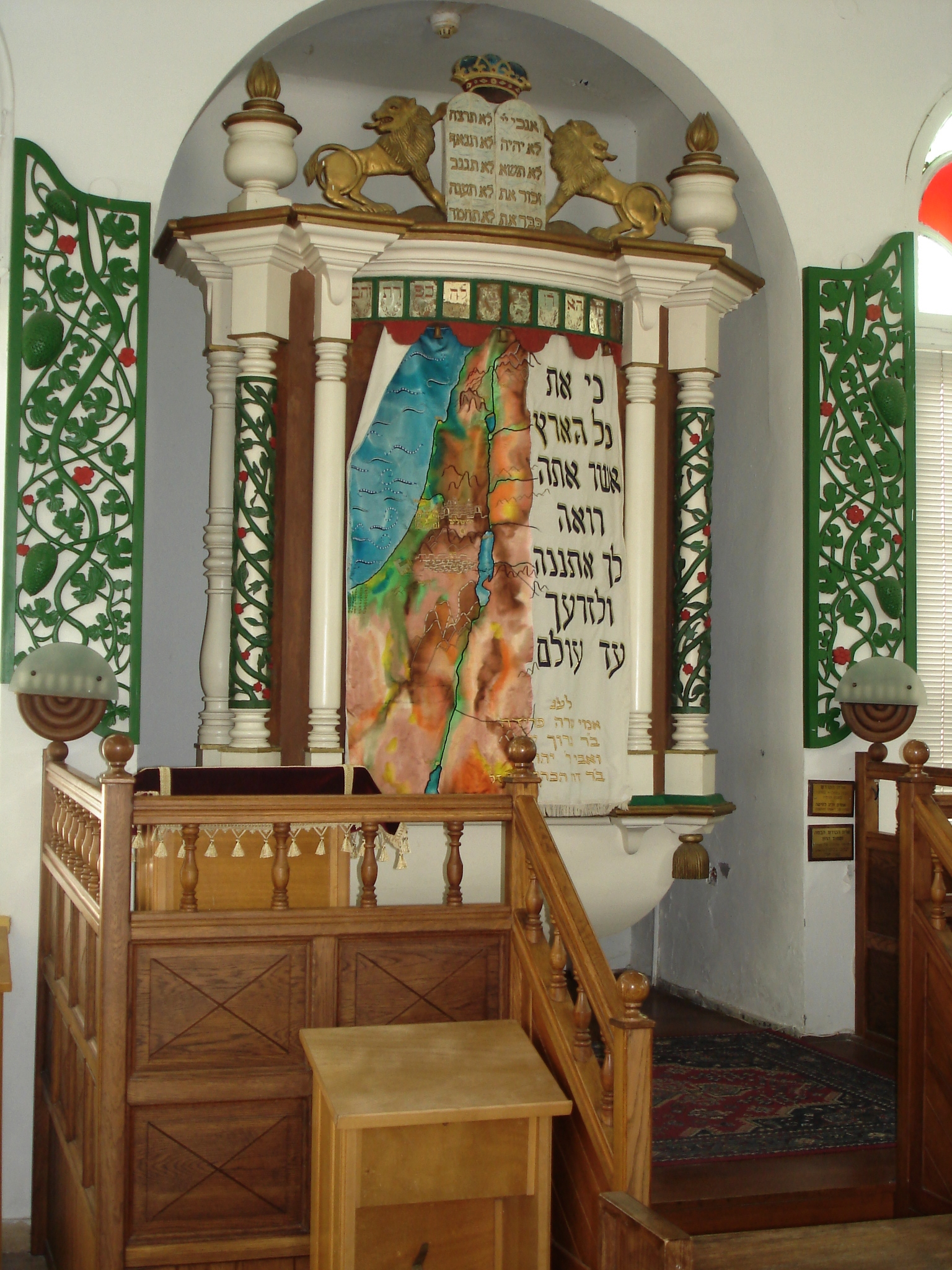 Synagogue of Mazkeret Batya, donator: Baron Rothschild - The Aron kodesh